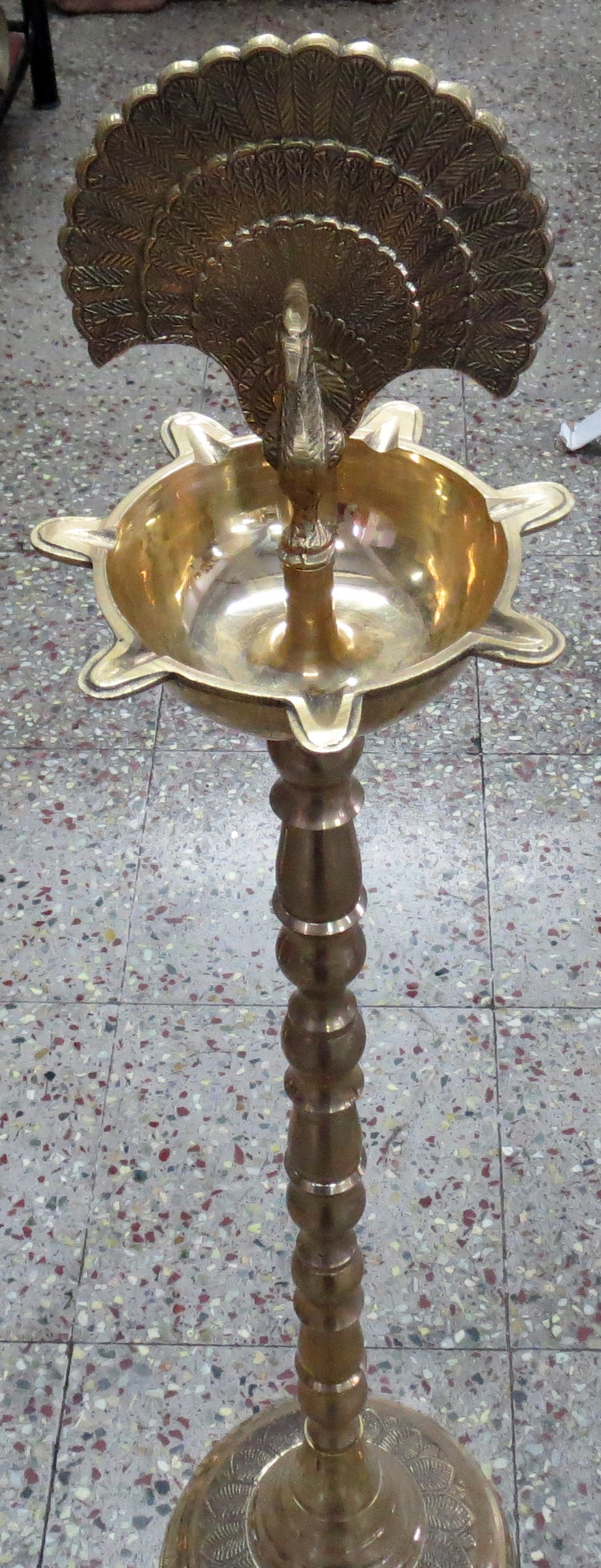 Mayilmuga kuthuvilakku is a special type kuthuvilakku which has its face as a peacock. Tamil:மயில்முக குத்துவிளக்கு.